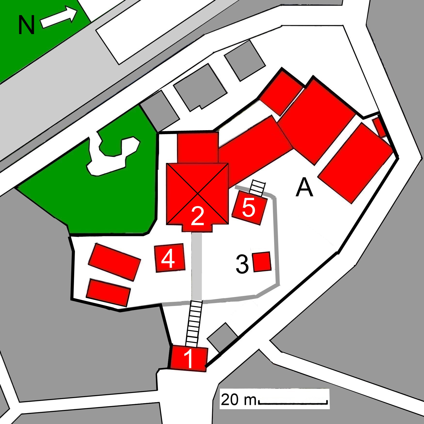 Layout of temple Gumyô-ji, Yokohama, Japan